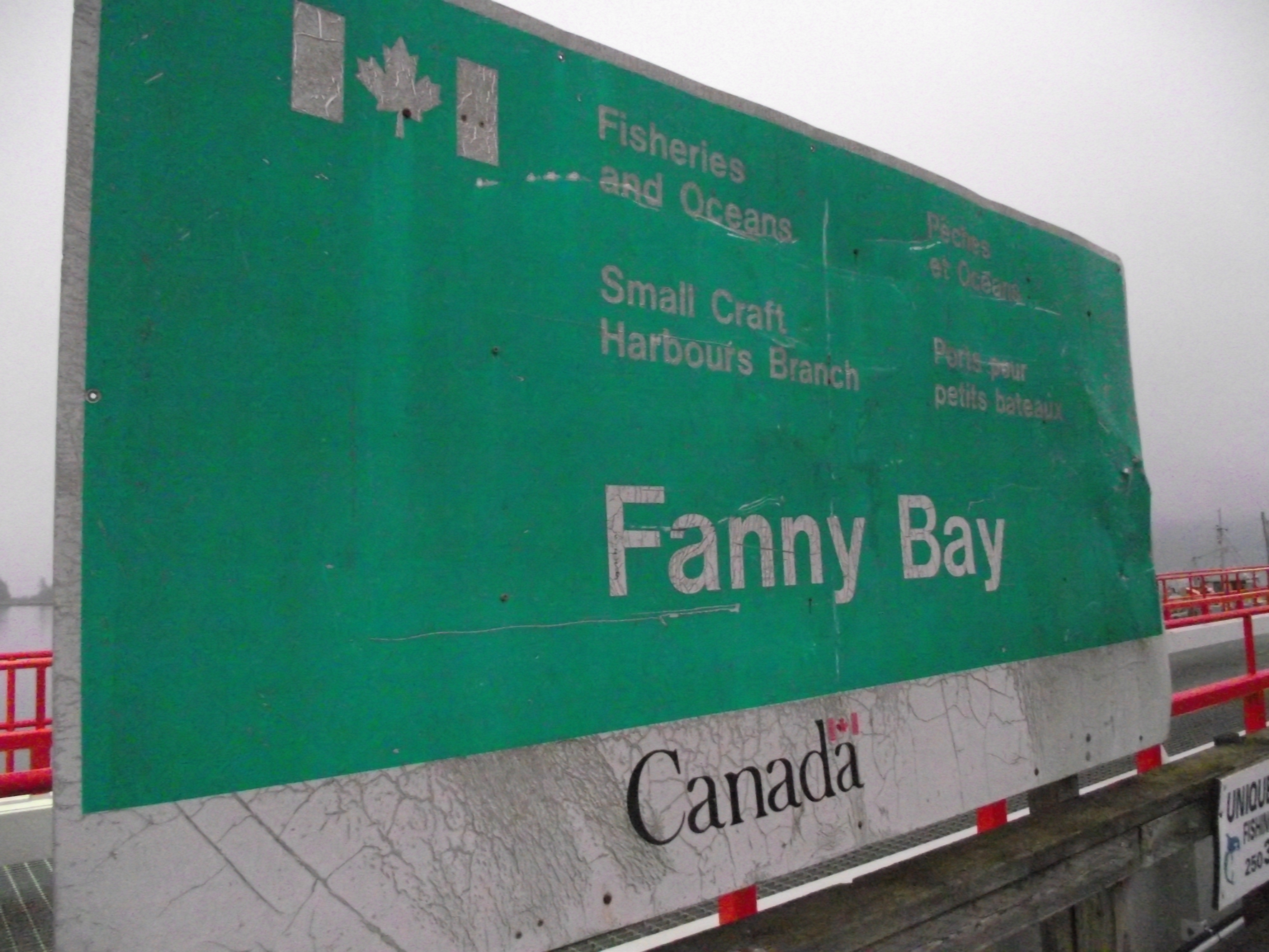 Fisheries sign for Fanny Bay